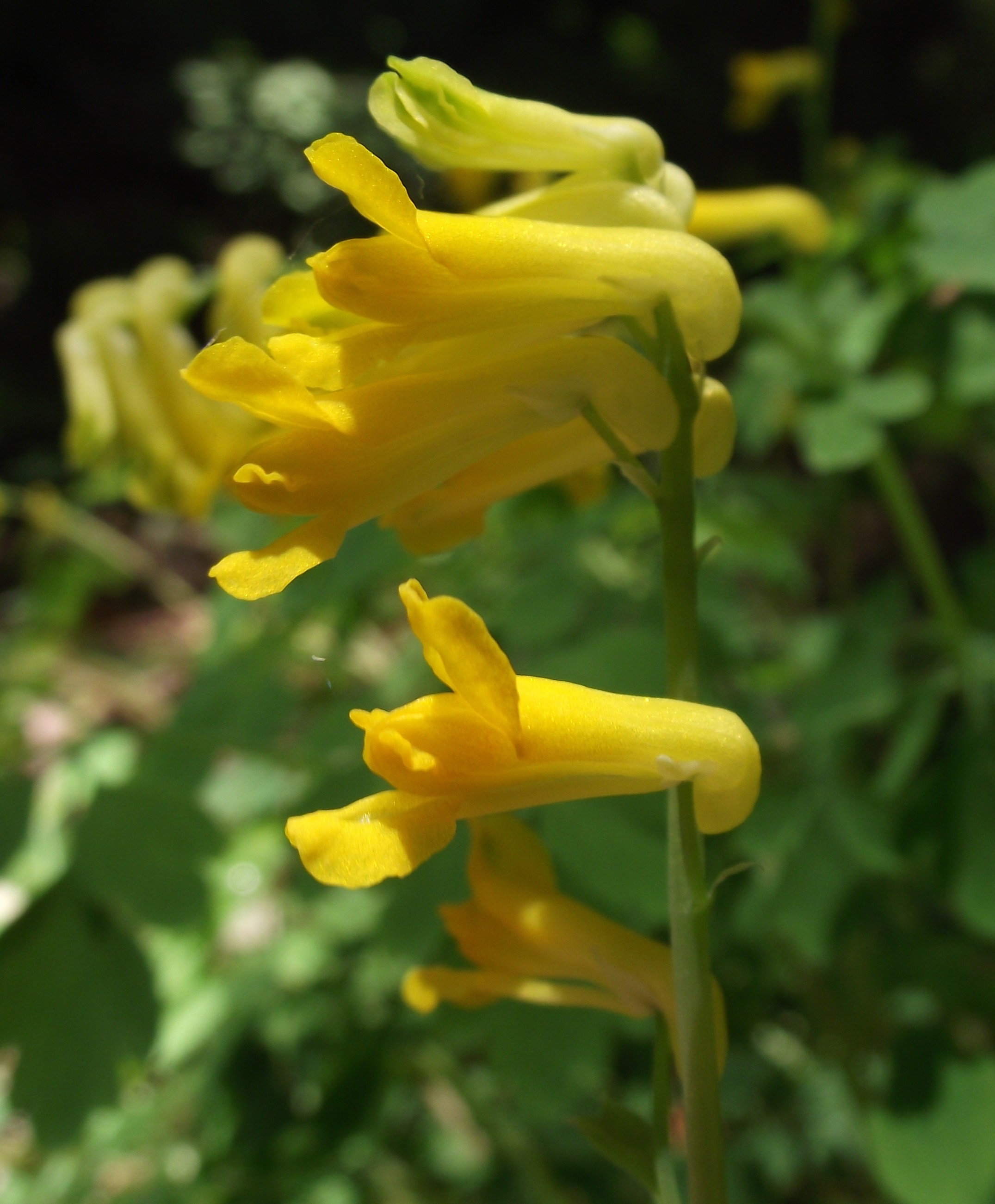 Corydalis ophiocarpa at the UC Botanical Garden, Berkeley, California, USA. Identified by sign.